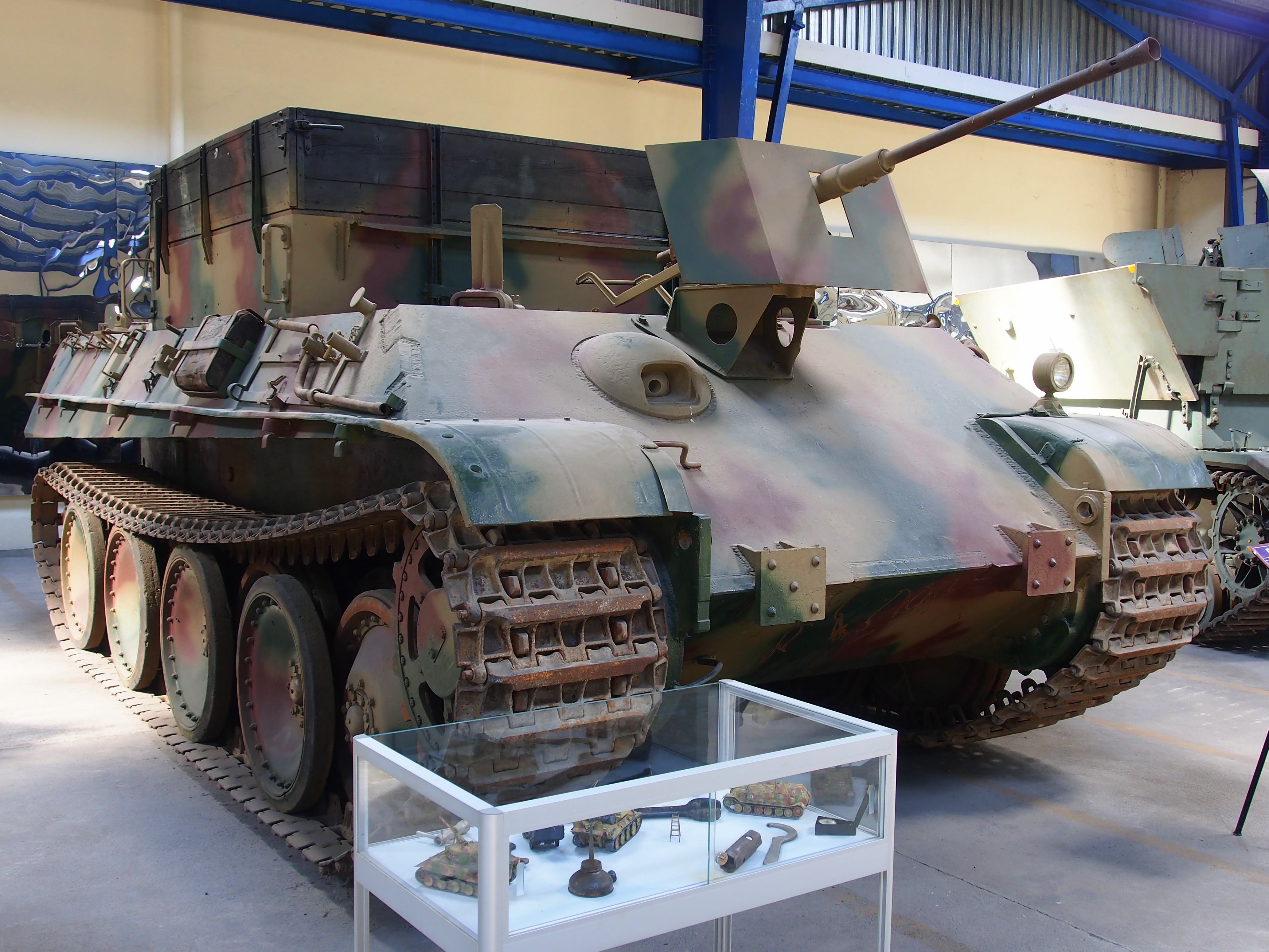 Photographed in the Musée des Blindés, France.